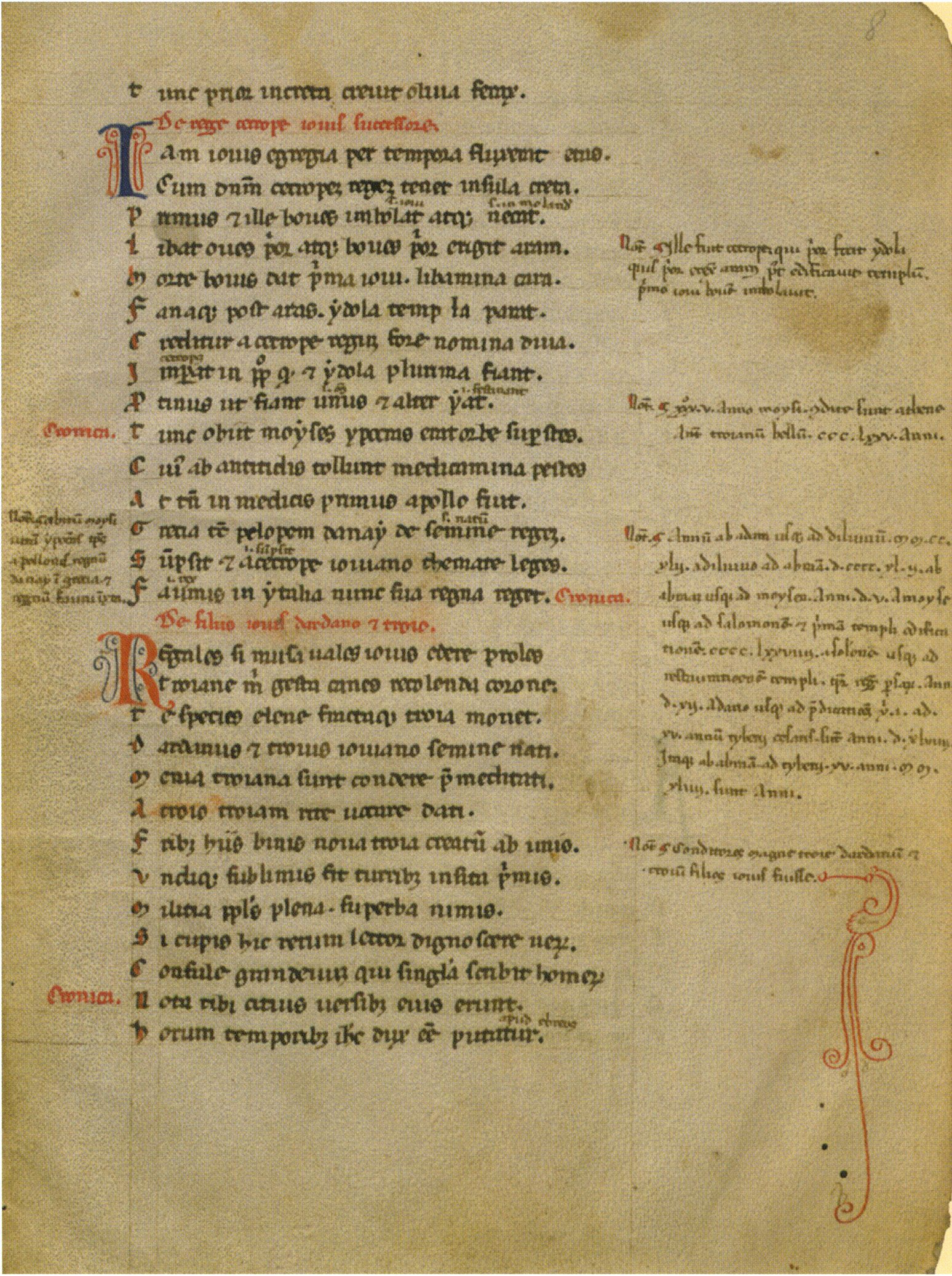 Godfrey of Viterbo, Speculum regum, in ms. Munich, Bayerische Staatsbibliothek, Clm 28330, fol. 8r.